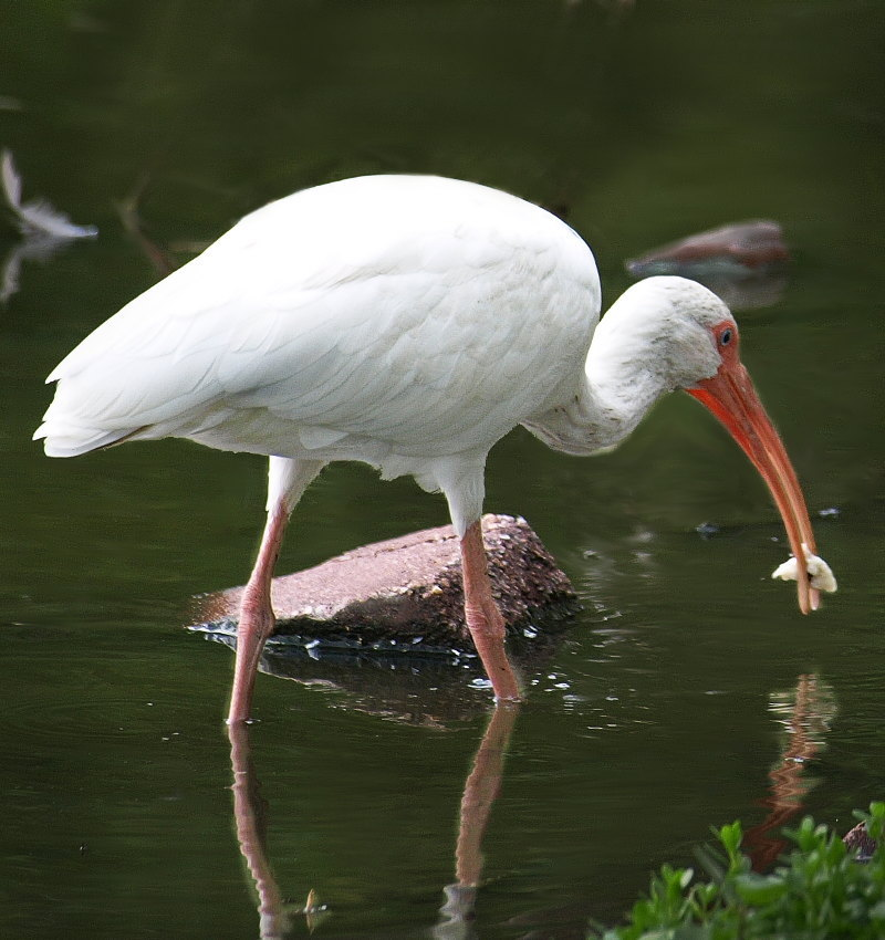 An Ibis foraging in the bayou at Lafreniere Park, Metairie, Louisiana.